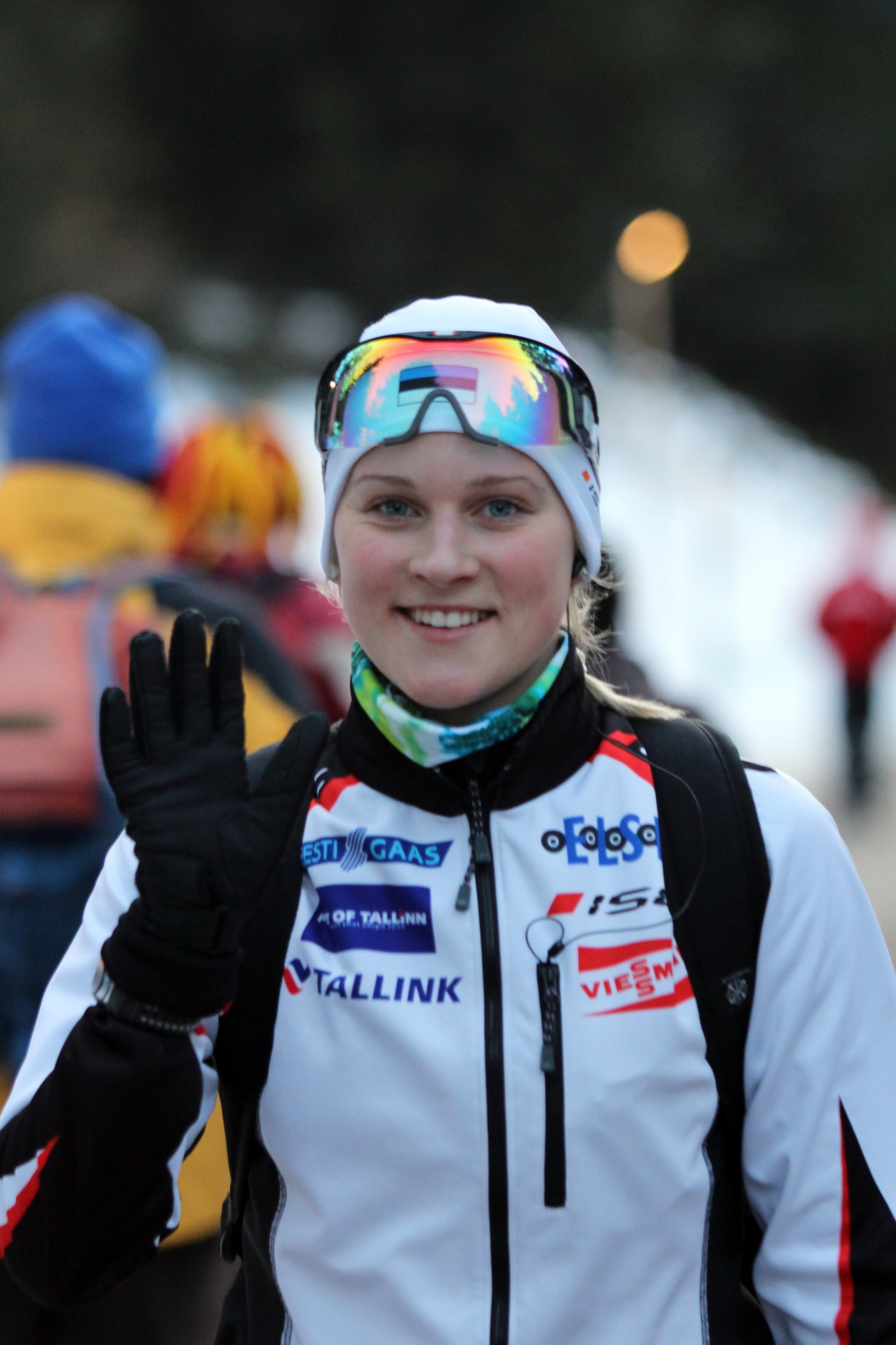 Kristel Viigipuu (EST) in Anterselva